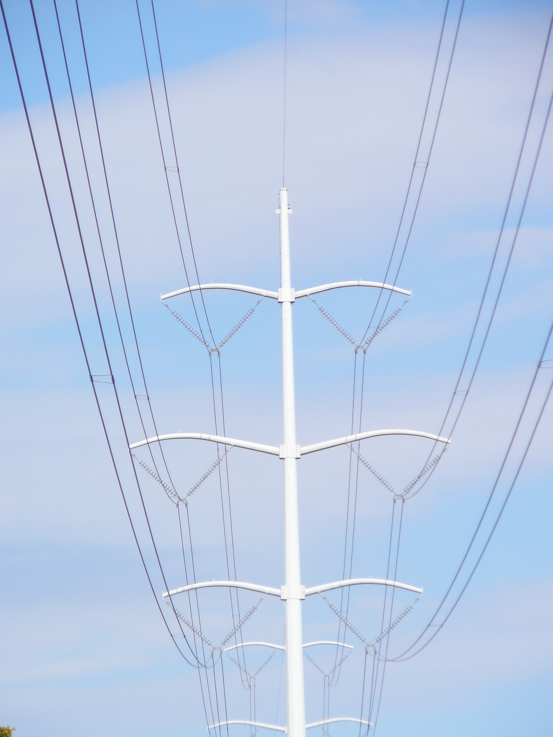 A suspension pylon of tubular or "muguet" (lily) type of an Hydro-Québec TransÉnergie double-circuit 120 kV power line in Gatineau, Canada. These pylons are less massive than their regular counterparts and are used in urban settings. They are used for high-voltage lines, from 110 to 315 kV.